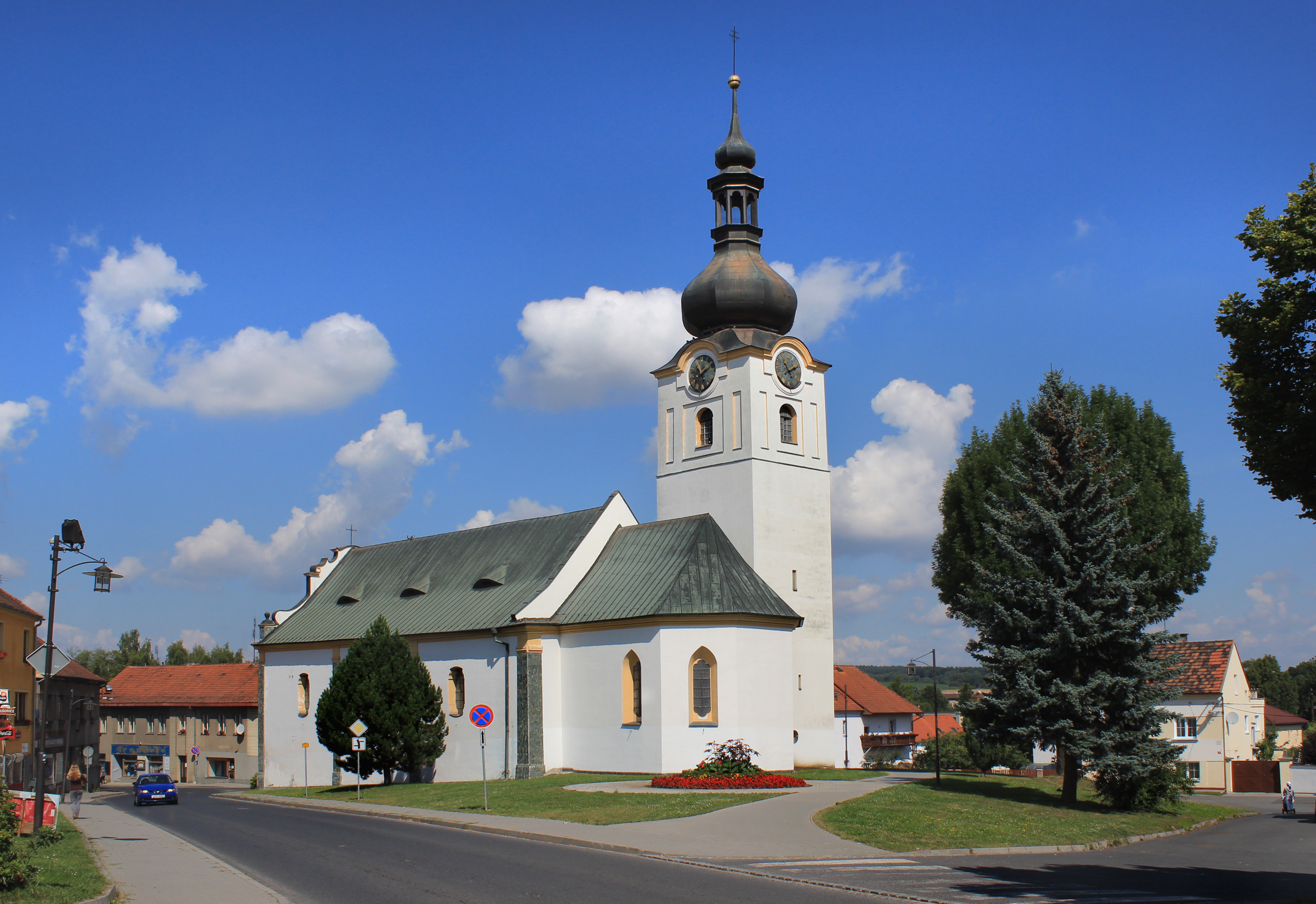 Church of James the Greater in Staňkov, Czech Republic.